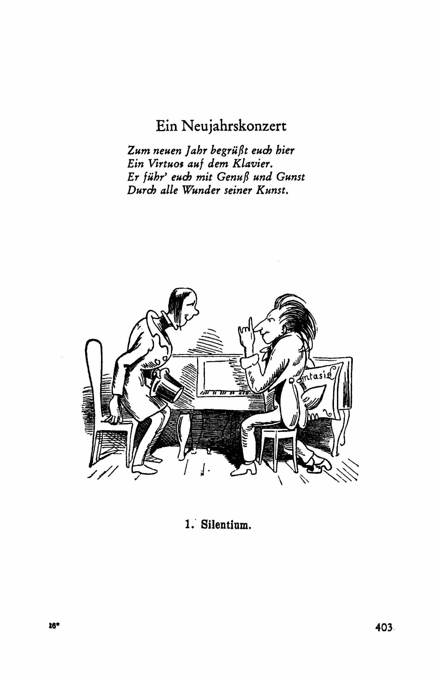 This is a scan of the historical document